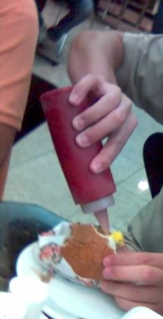 catchup squeeze bottle, my pic